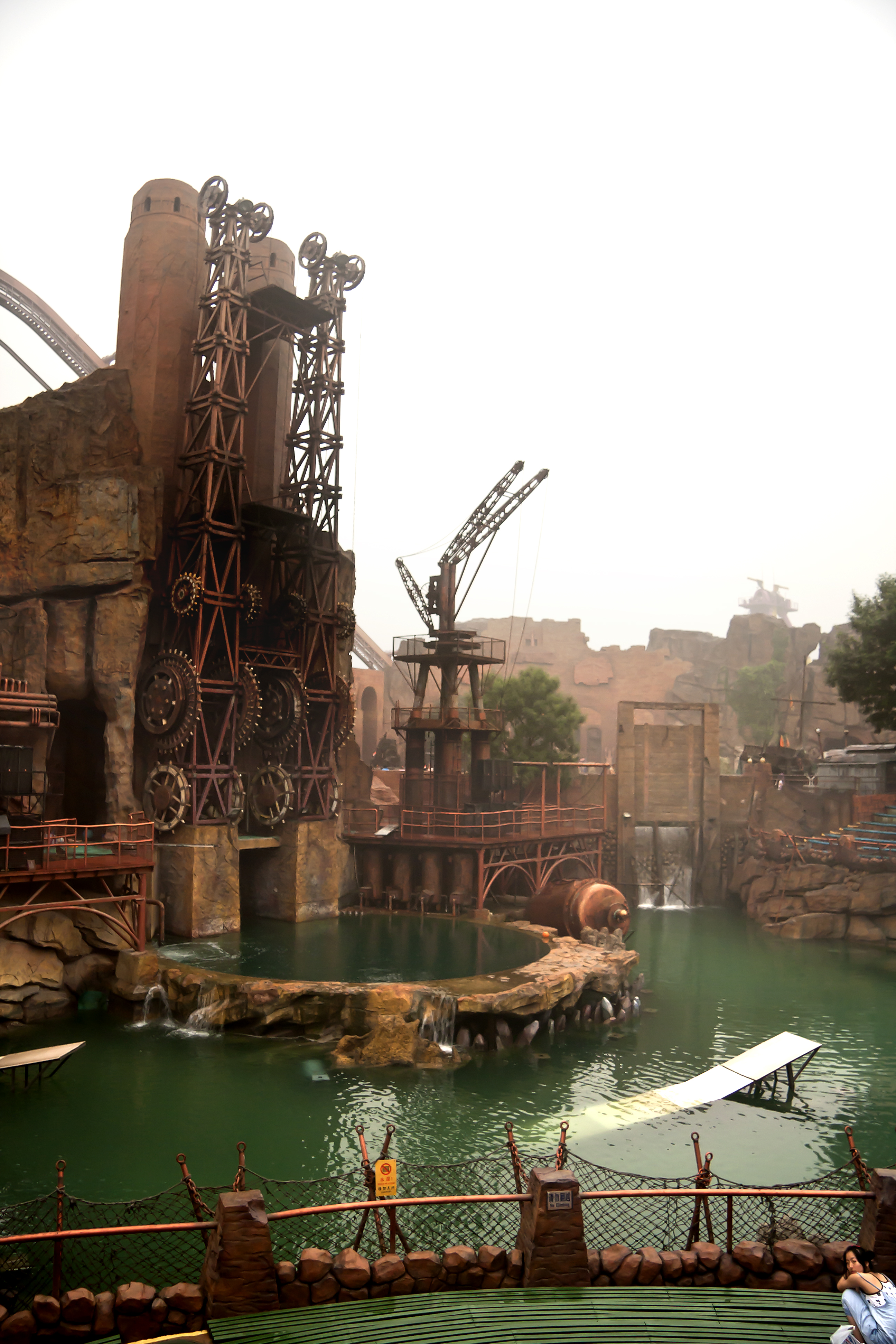 Water ski arena at Happy Valley theme park in Beijing, China.